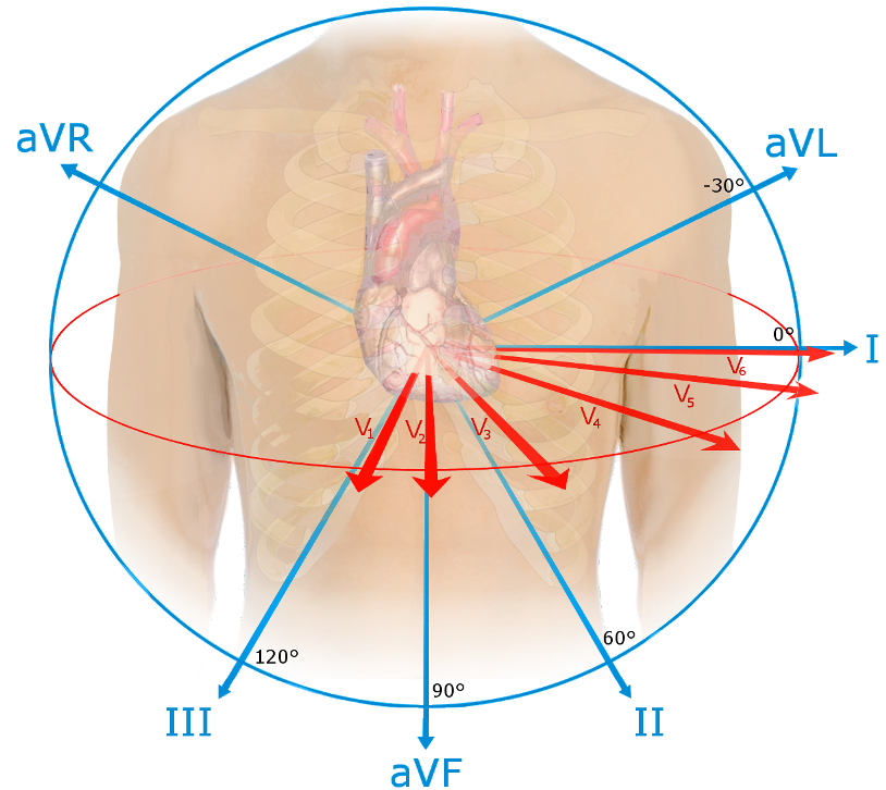 Spatial orientation of EKG leads